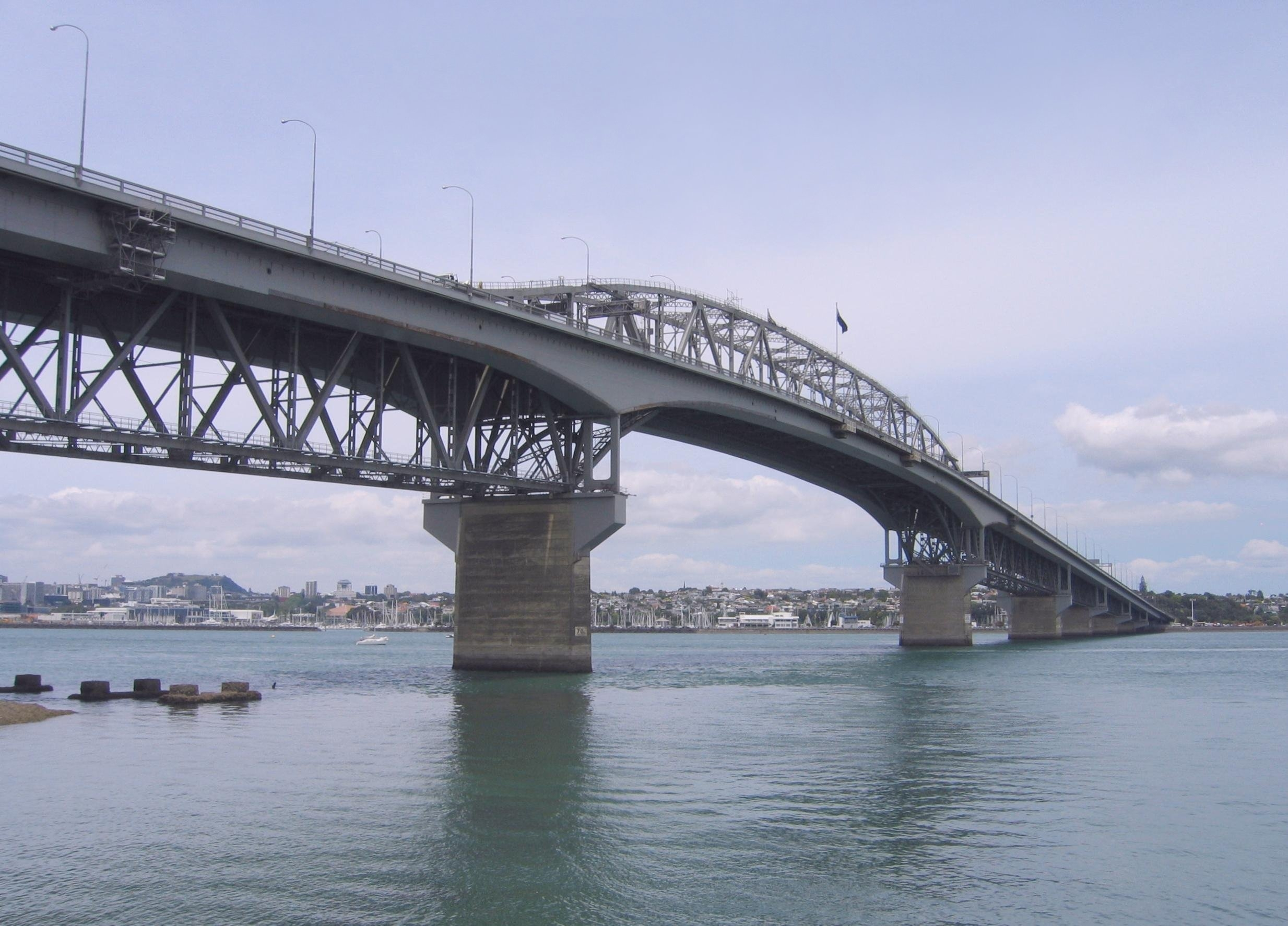 The Auckland Harbour Bridge is an eight-lane box truss motorway bridge over the Waitemata Harbour, joining St Marys Bay in Auckland with Northcote in North Shore City, New Zealand. The bridge is part of State Highway 1 and the Auckland Northern Motorway. It is the second-longest road bridge in New Zealand, and the longest in the North Island. The bridge has a length of 1,020 m (3,348 ft), with a main span of 243.8 m, rising 43.27 m above high water allowing access to the deepwater port at the Chelsea Sugar Refinery west of it (nowadays one of the few wharves needing such access west of the bridge).